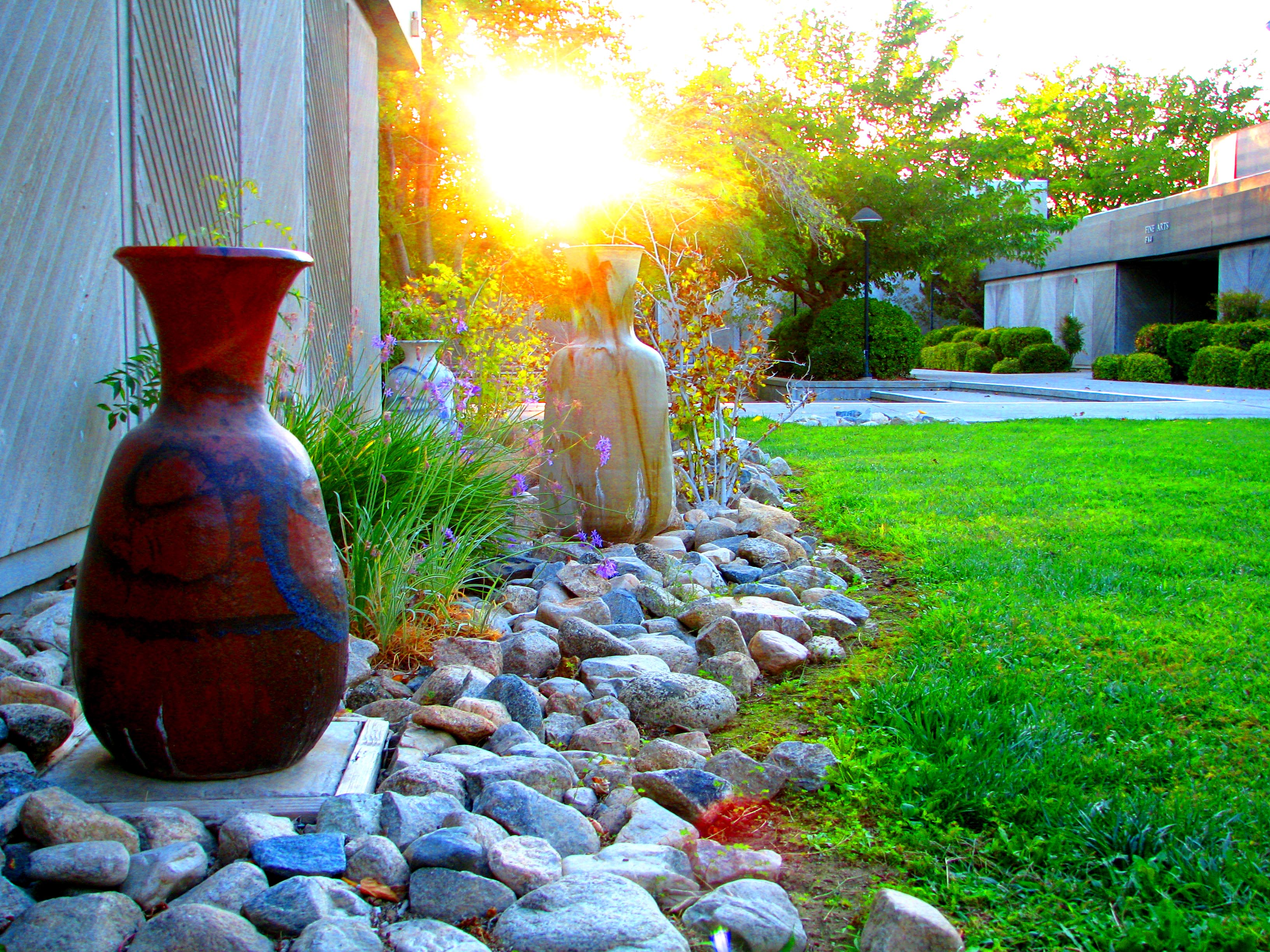 Antelope Valley College (AVC) Garden Pottery